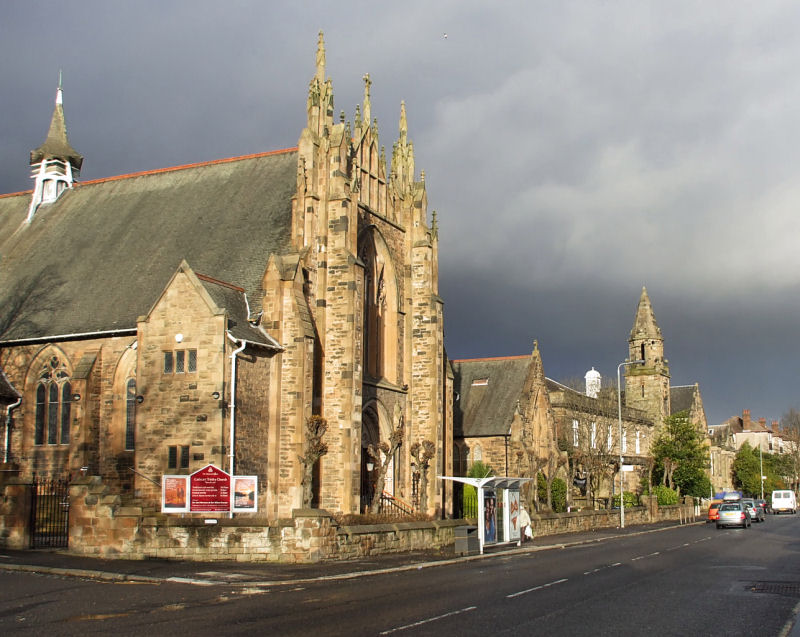 View of Cathcart Trinity Church and Couper Institute, Cathcart, Glasgow